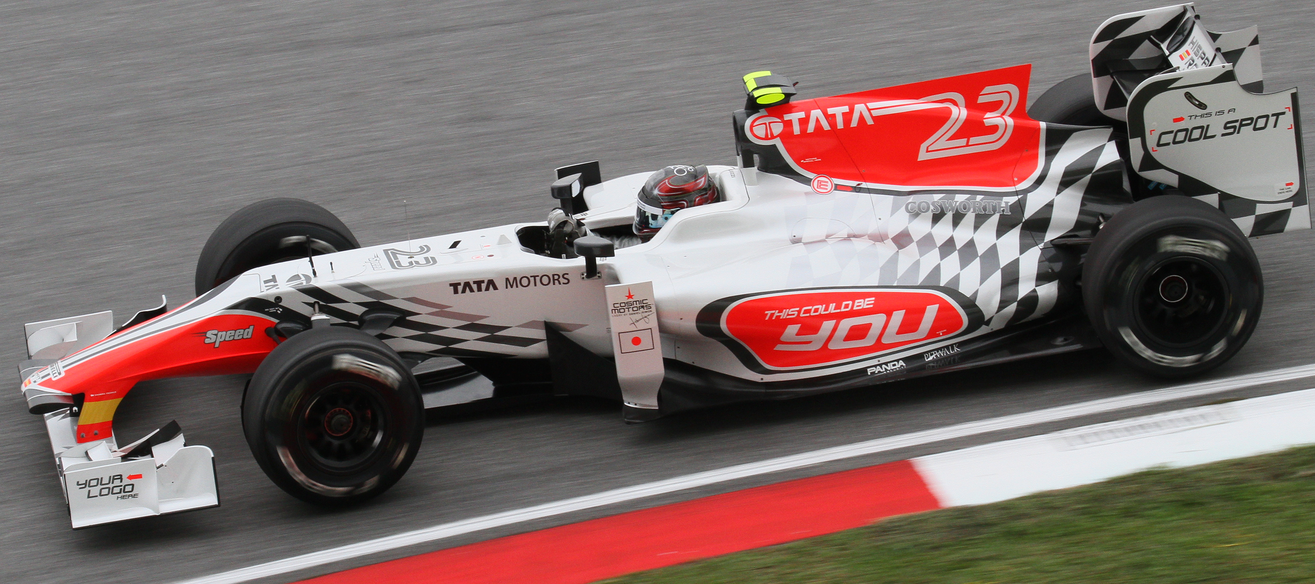 Formula One 2011 Rd.2 Malaysian GP: Vitantonio Liuzzi (HRT) during the first practice session on Friday.